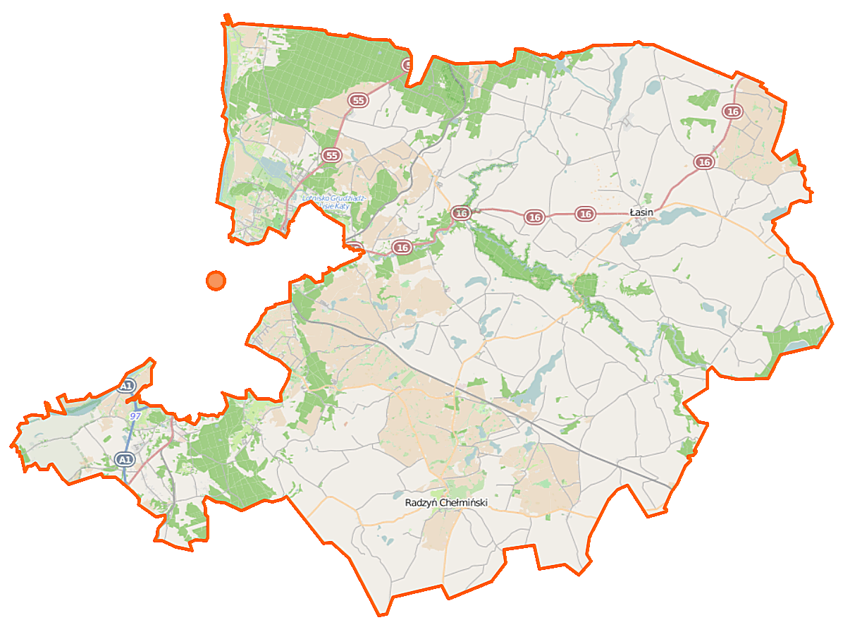 Map of Powiat grudziądzki, Poland This map of Powiat grudziądzki was created from OpenStreetMap project data, collected by the community. This map may be incomplete, and may contain errors. Don't rely solely on it for navigation. Border coordinates53.617818.5875←↕→19.249453.3243